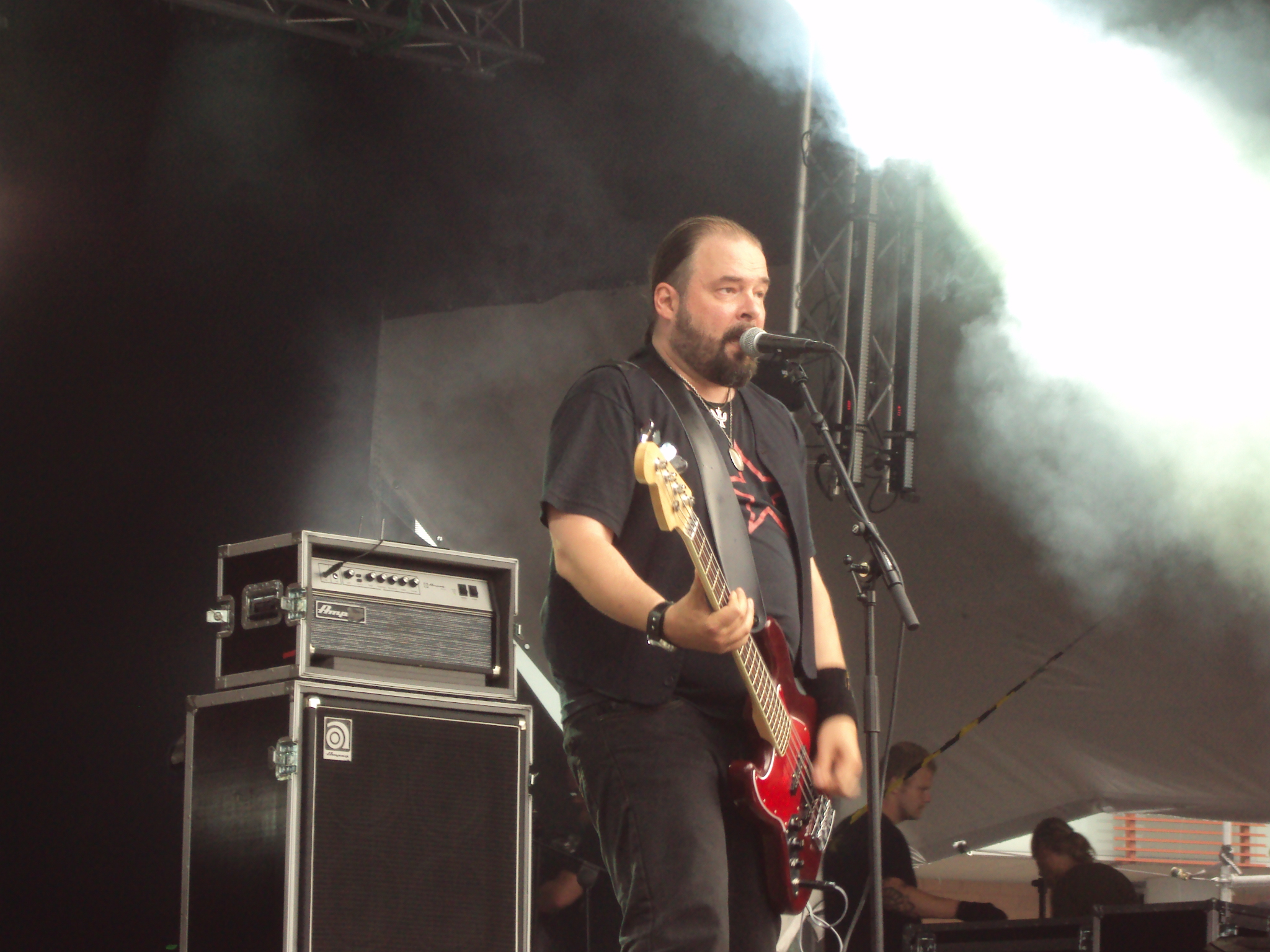 A. W. Yrjänä of CMX at Suomi Pop Festival, Jyväskylä, Finland